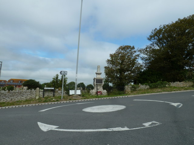 Wyke Regis War Memorial, Dorset